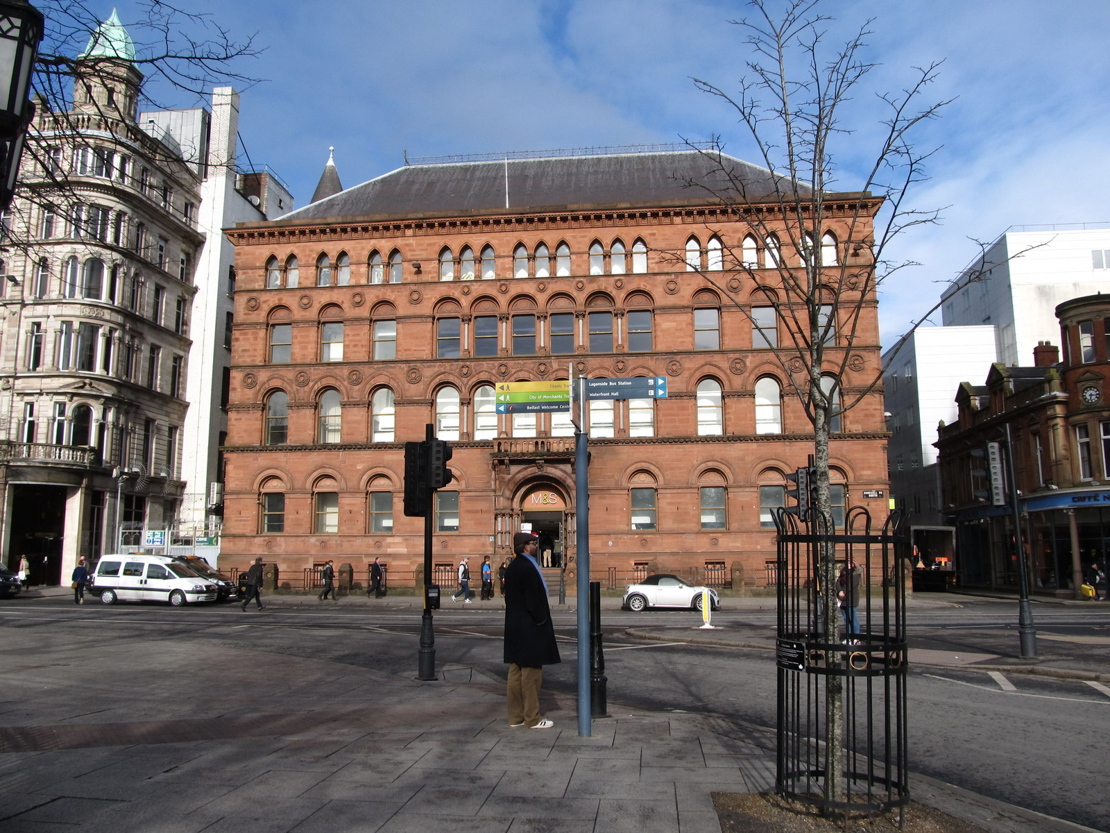 The former Belfast Water Office that became an extension to M&S The image was taken from the corner of the A1 and Donegall Street East.